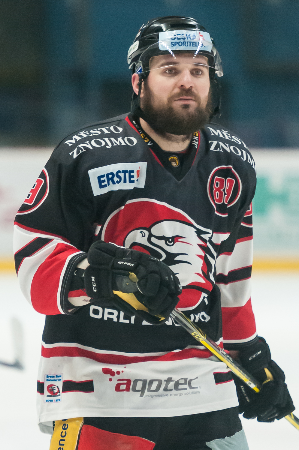 EBEL Orli Znojmo vs. HC Bolzano 2016-02-05